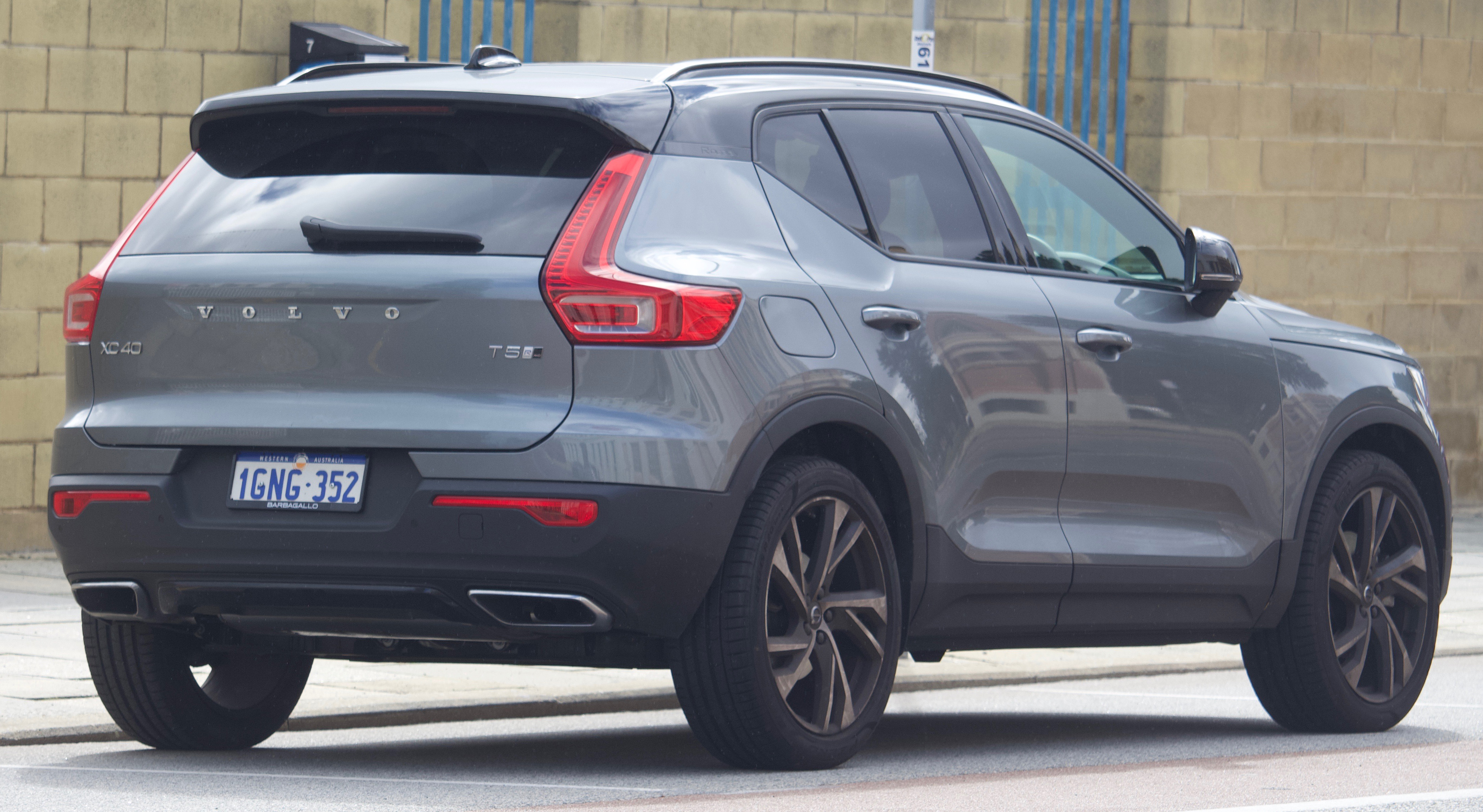 2018 Volvo XC40 T5 R-Design AWD wagon. Photographed in Fremantle, Western Australia, Australia.